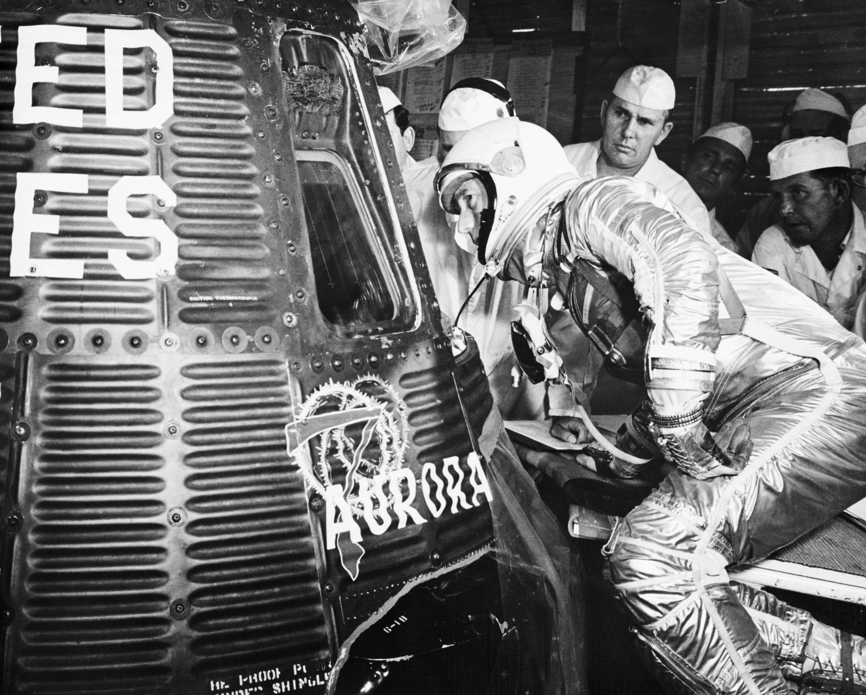 50 years ago today, Scott Carpenter flew the second American manned orbital flight on May 24, 1962. He piloted his Aurora 7 spacecraft through three revolutions of the earth. In this photo, taken on May 24, 1962, Astronaut M. Scott Carpenter looks into his Mercury-Atlas 7 spacecraft, the Aurora 7, before being inserted to begin the launch.